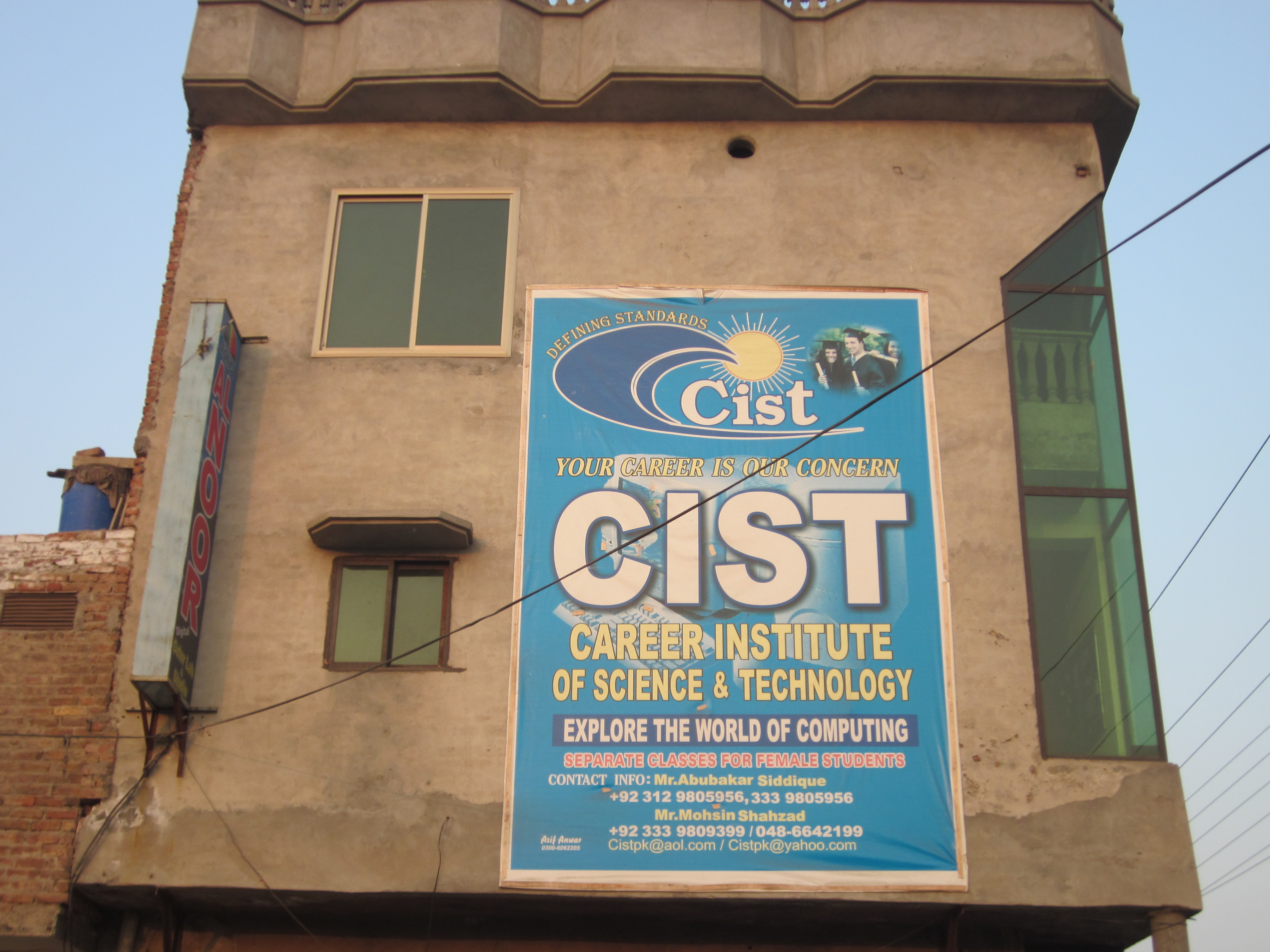 Cist College Bhalwal